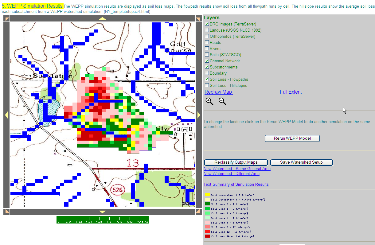 Screen capture of the WEPP (Water Erosion Prediction Project) web-based GIS interfaces for simple hillslope profile simulations